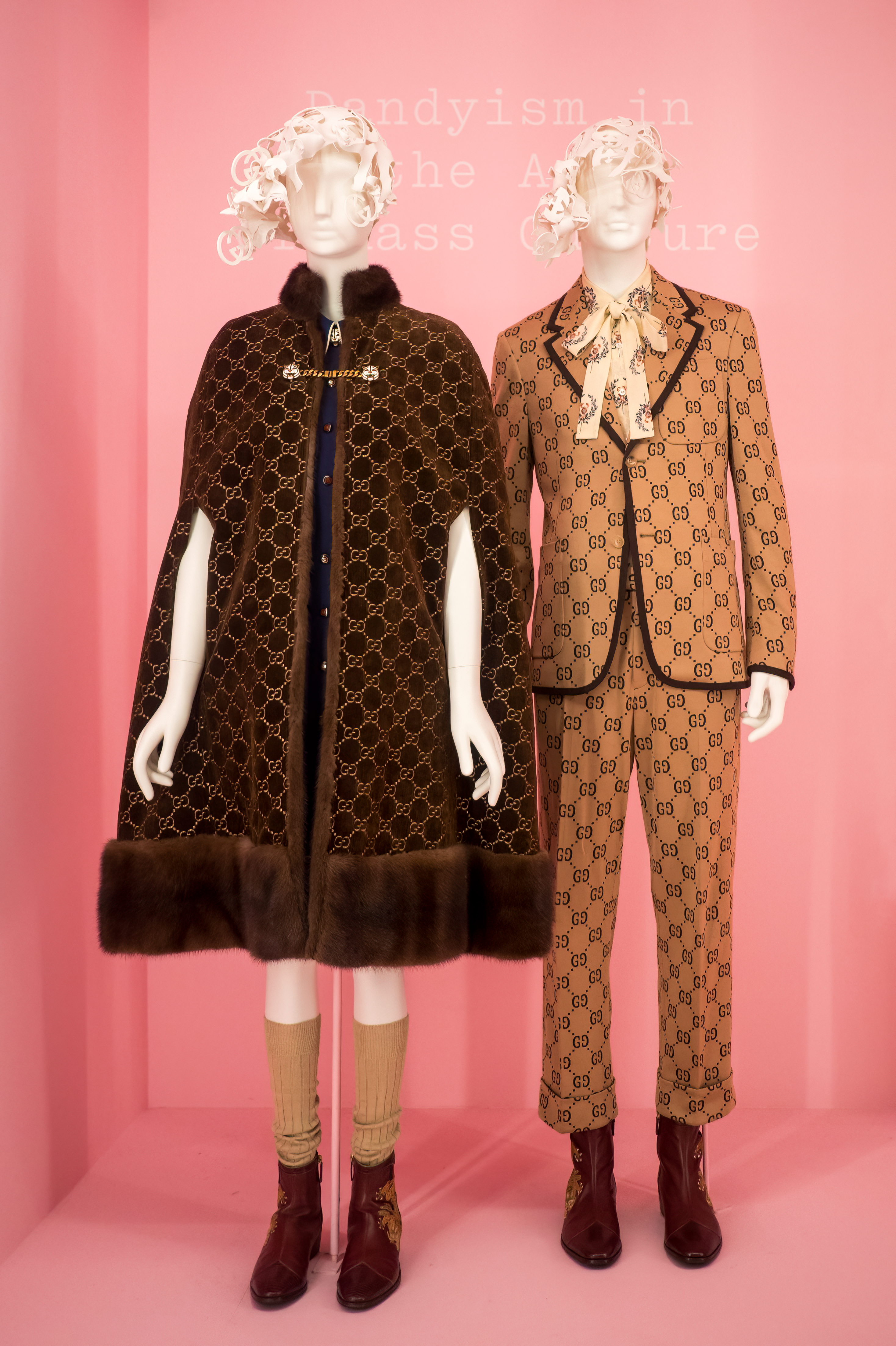 Both by Gucci/Alessandro Michele, 2018Camp: Notes on Fashion exhibit at the Met Camp - Notes on Fashion at the Met - Alessandro Michele for Gucci (73831 cut).jpg